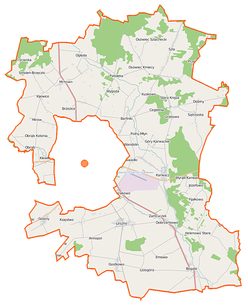 Map of Gmina Przasnysz, Poland This map of Przasnysz (gmina wiejska) was created from OpenStreetMap project data, collected by the community. This map may be incomplete, and may contain errors. Don't rely solely on it for navigation. Border coordinates53.117720.7957←↕→21.045052.9327